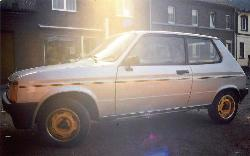 Talbot Samba Sympa, build 10/1983